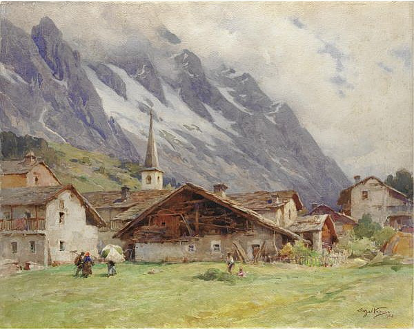 Courmayeur by Achille Beltrame